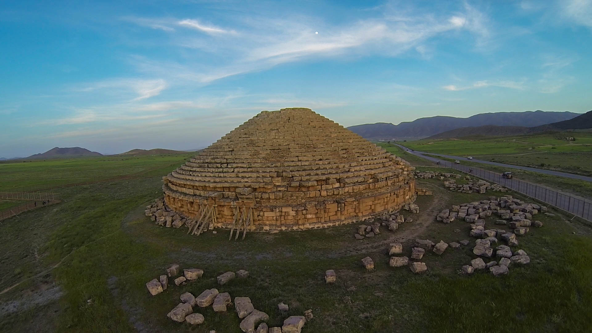 imedghasen is a royal mausoleum-temple of the Berber Numidian Kings which stands near Batna city in Aurasius Mons in Numidia - Algeria.